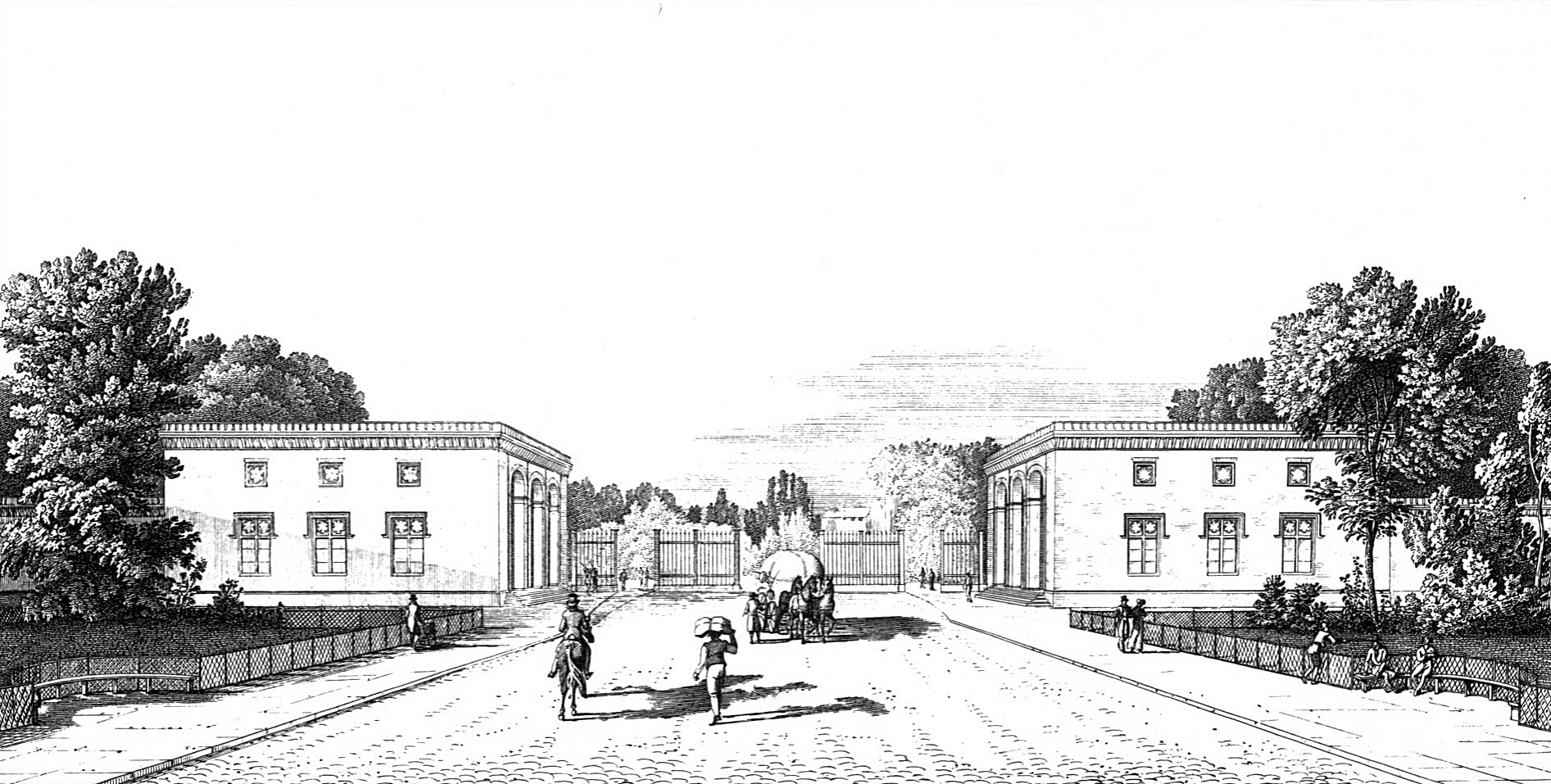 Berlin, New Gate (Neues Tor), architectural design by Carl Friedrich Schinkel